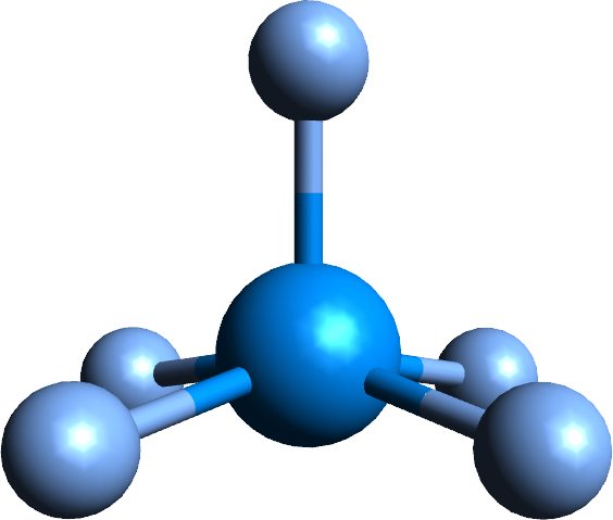 Ball-and-stick model of the monomeric form of uranium pentafluoride. Onoe, J.; Nakamatsu, H.; Mukoyama, T.; Sekine, R.; Adachi, H.; Takeuchi, K. (1997). "Structure and Bond Nature of the UF5 Monomer". Inorg. Chem. 36 (9): 1934–1938.